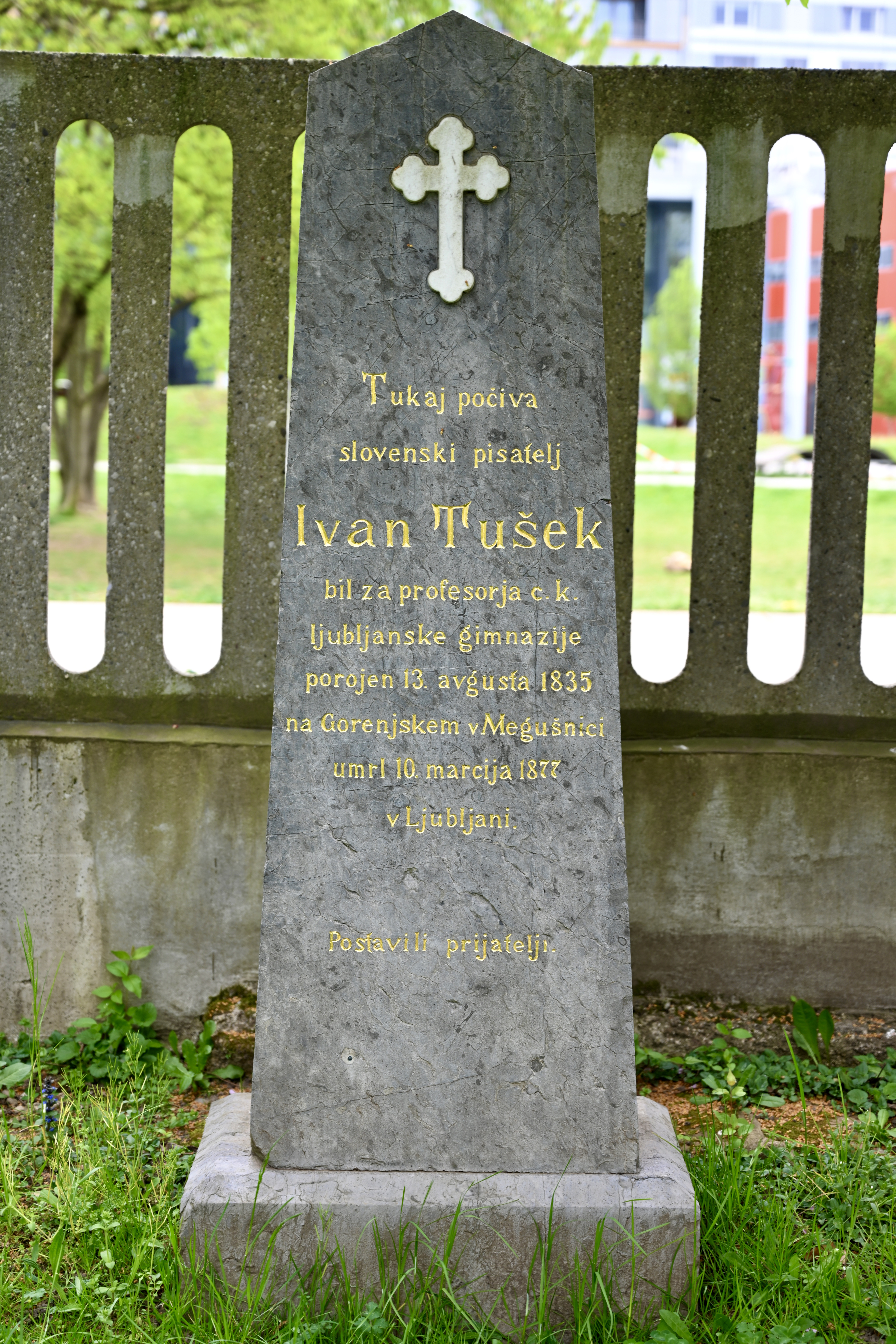 Tombstone of Ivan Tušek, a Slovenian author, at Navje in Ljubljana